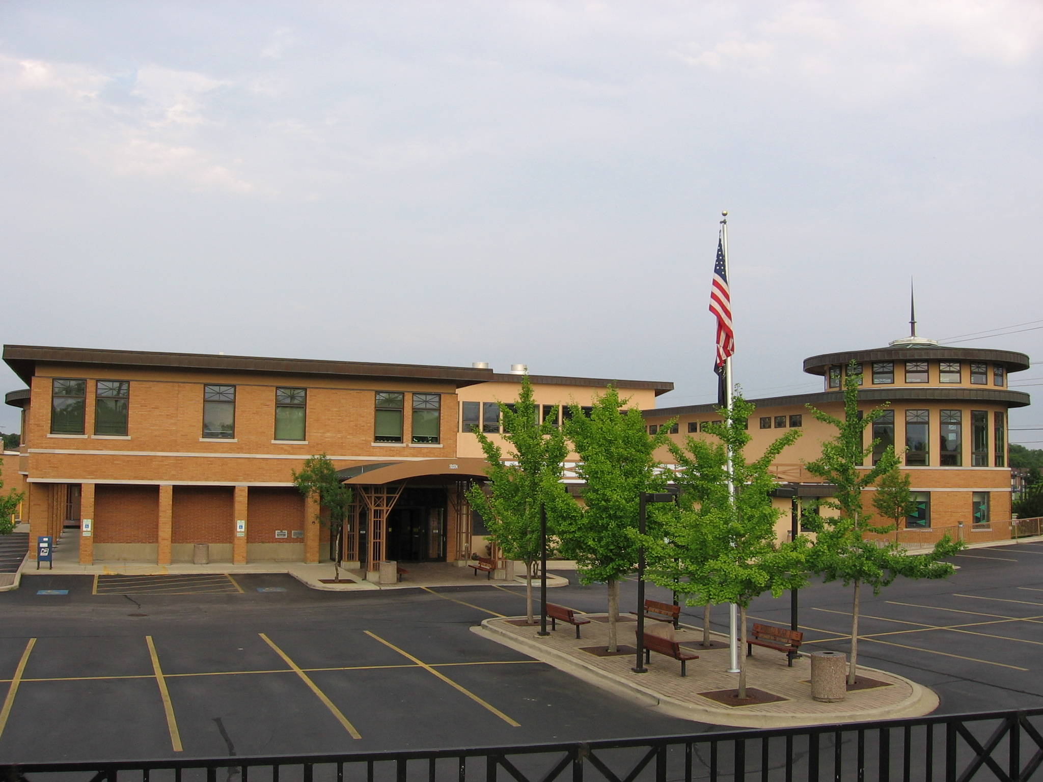 This is a photograph of the public library in Niles, Illinois.